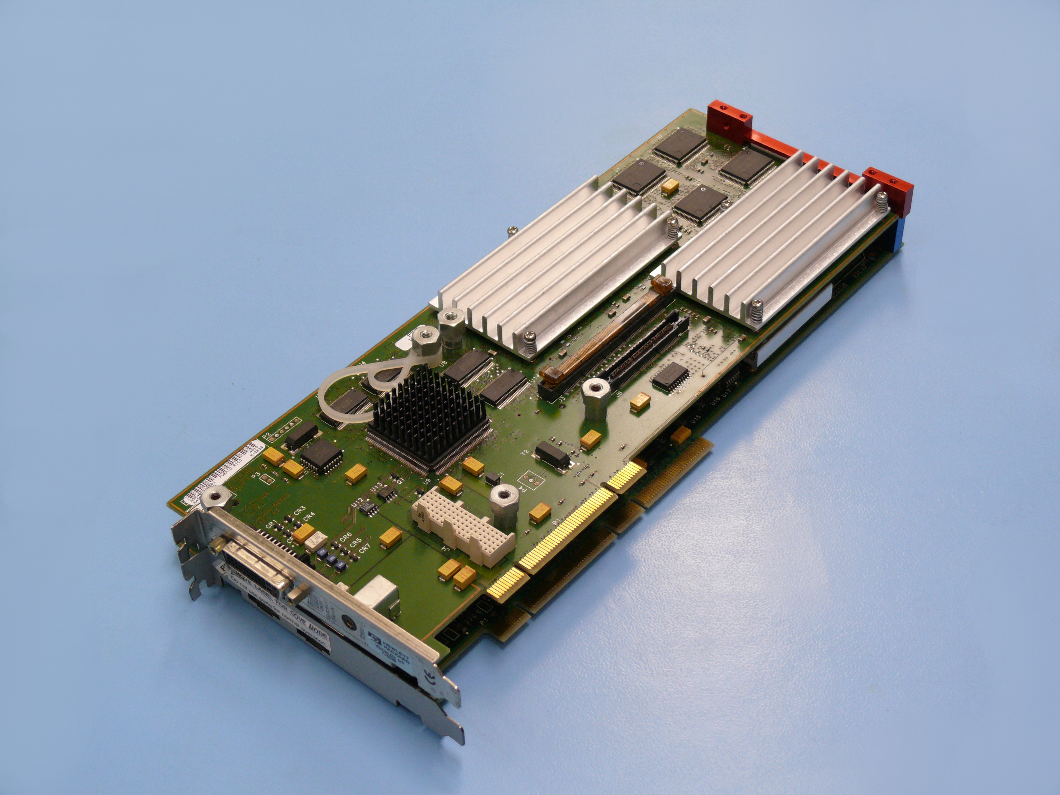 Hewlett-Packard FX6 Graphics Board, HP-Part No.: A4554-60003 + Frame Buffer Board, HP-Part No.: A4554-66506